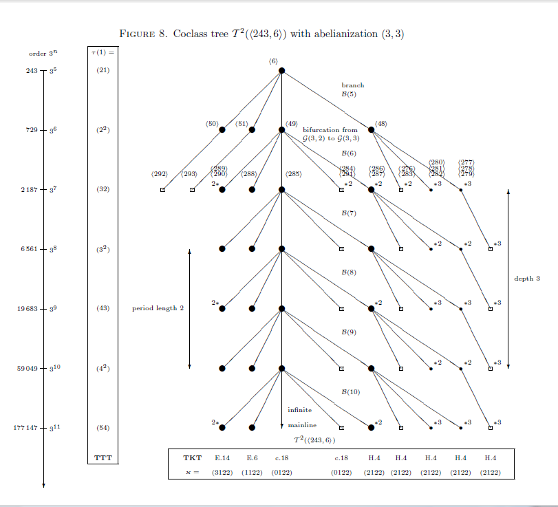 This diagram shows the descendant tree of the root , restricted to finite 3-groups with coclass 2. All vertices possess an abelianization of type (3,3). Important vertices are labelled with their SmallGroups Library identifier in angle brackets. TTT means transfer target type. TKT means transfer kernel type. The mainline descendant of the root was called Q by Judith A. Ascione.